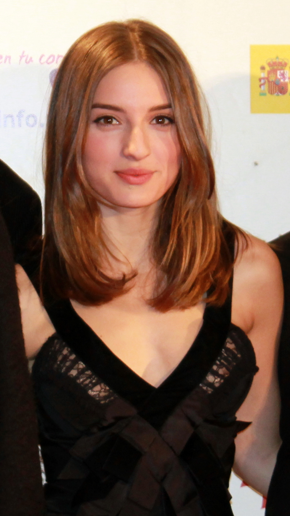 María Valverde, Spanish actress.